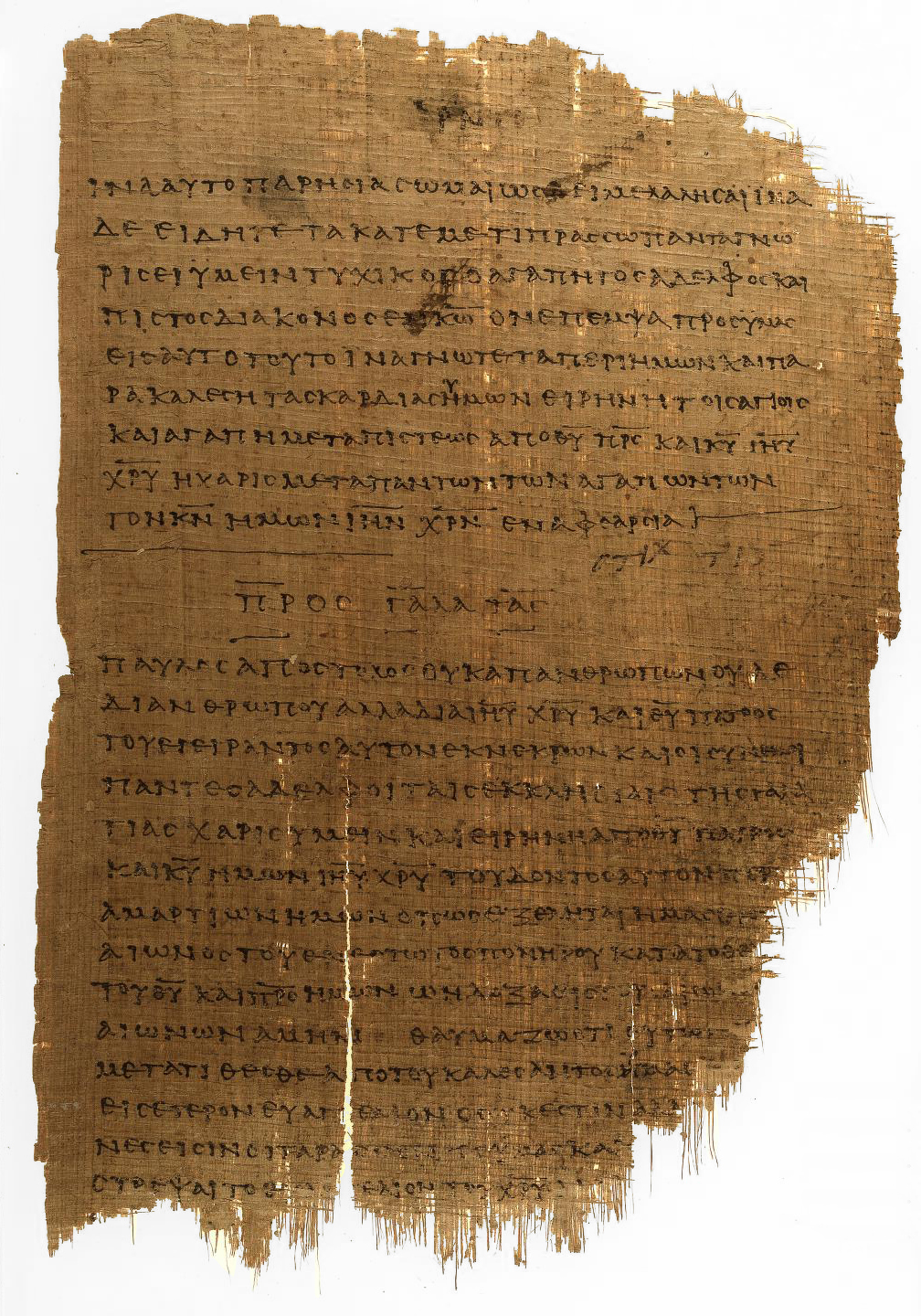 Greek copy of the last page of the Epistle to the Ephesians (verses 6:20–24) and the first page of Paul's Epistle to the Galatians (verses 1:1–8), dated to about 150 to 250 CE. Manuscript 6238,158r. University of Michigan.